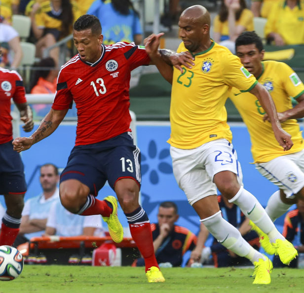 Brazil and Colombia match at the FIFA World Cup 2014-07-04